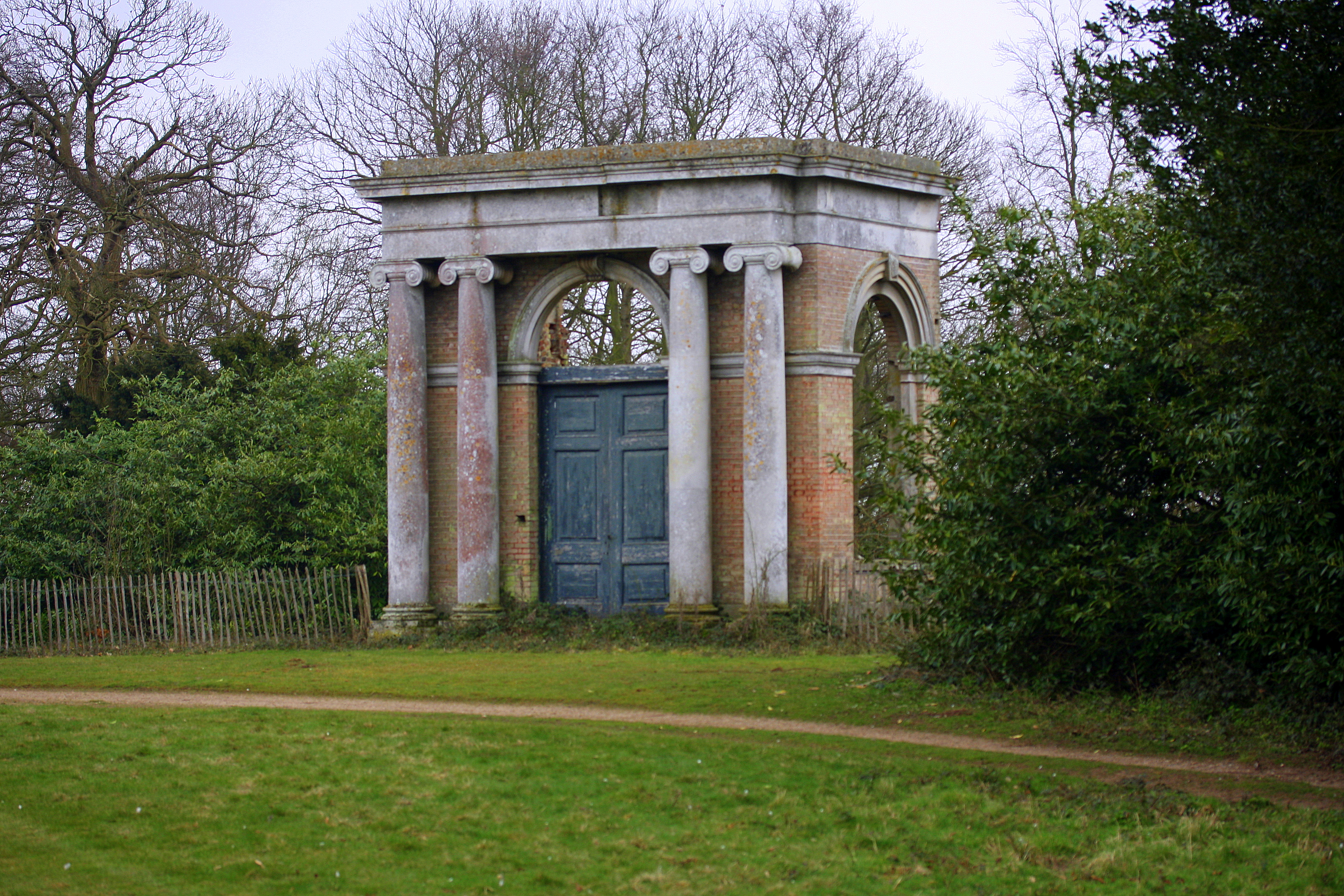 Front Door of Tendring Hall